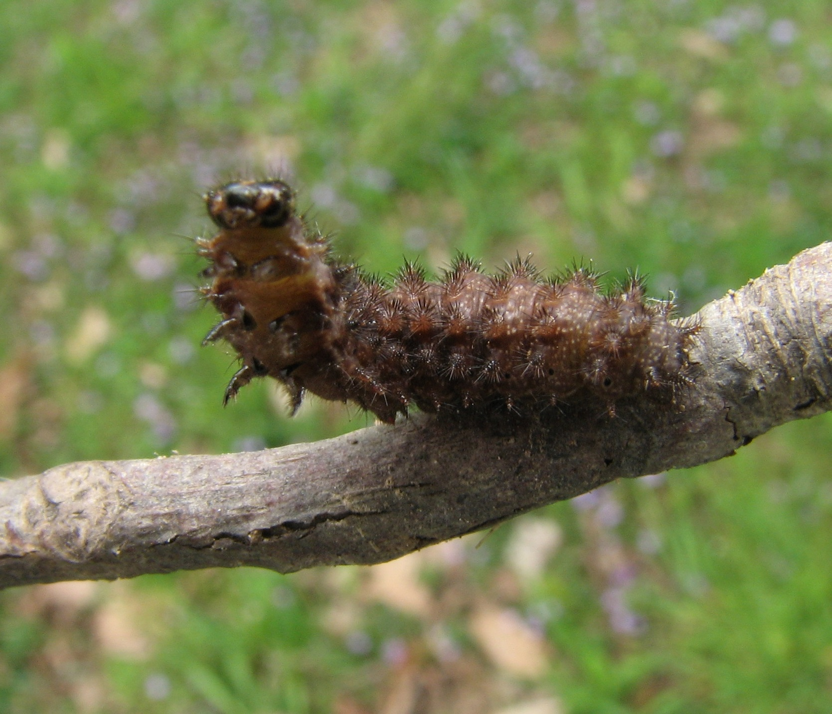 Phyciodes tharos (Pearl Crescent). Size: 15-17 mm. Jackson's Mill, Lewis County, West Virginia, United States. Caterpillar More details: [1] Jackson's Mill, Lewis County, West Virginia, USA. April 23, 2008. Size: 15-17 mm.